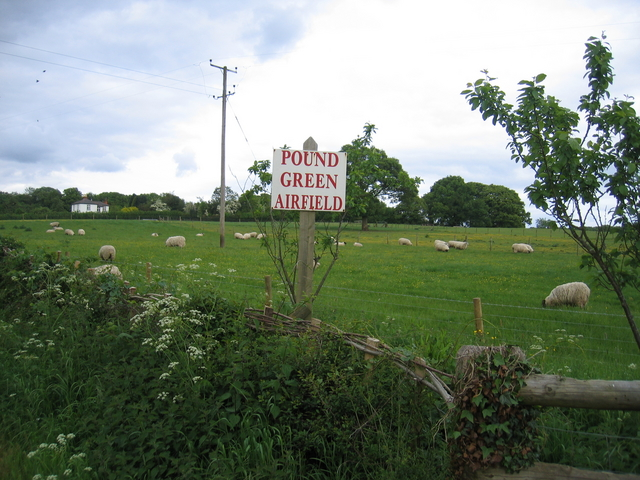 Pound Green Airfield. The entrance, in a decidedly rural setting.